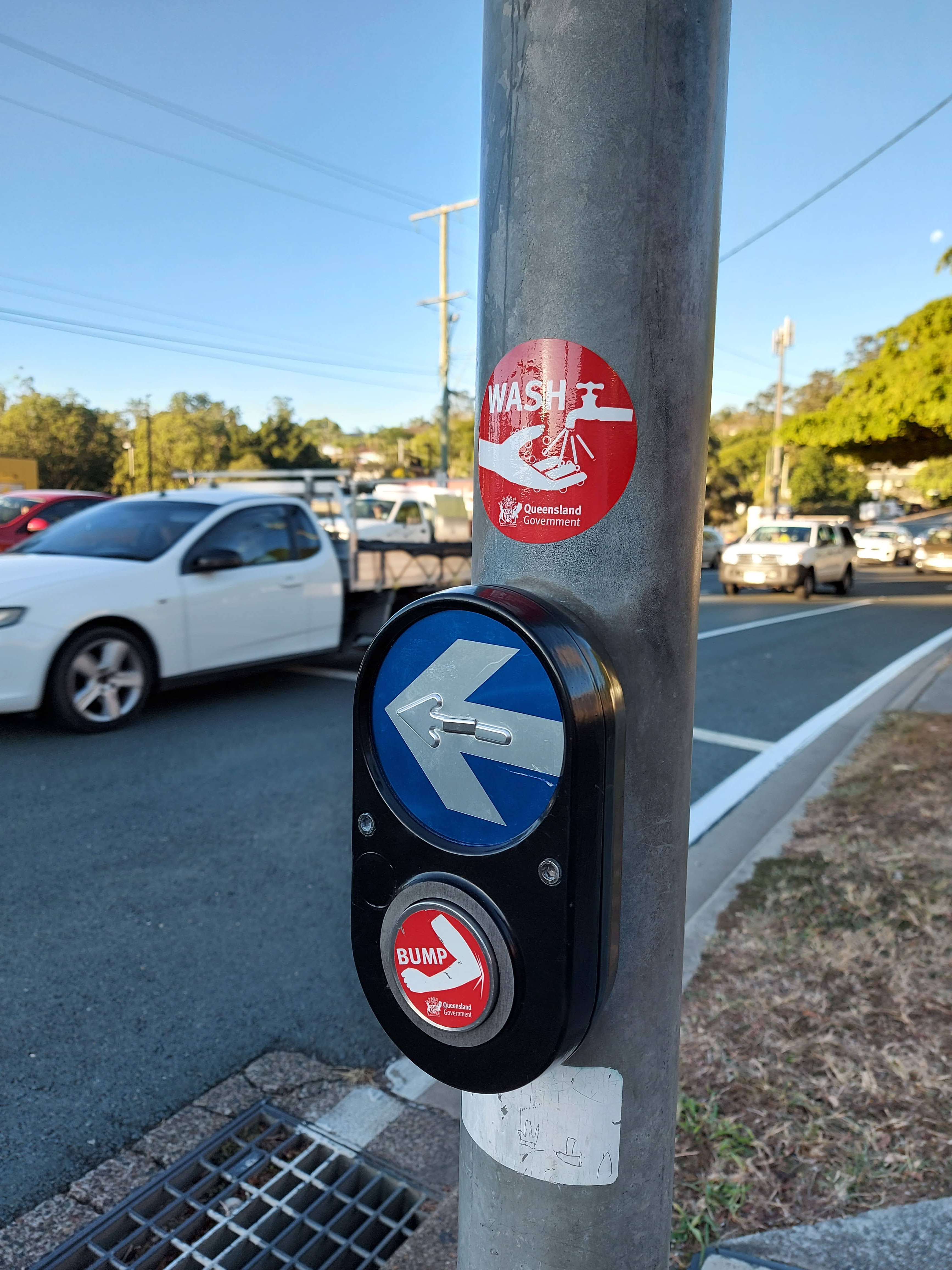 A set of Queensland Government stickers on a pedestrian signalling pole, advertising washing hands after being in public and using an elbow to press the walking button as some COVID-19 preventative measures.